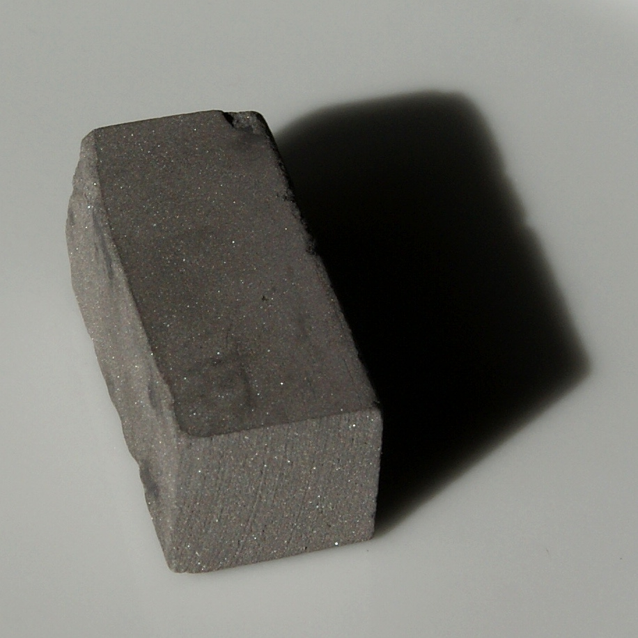 Sintered tungsten, 120 gramms.